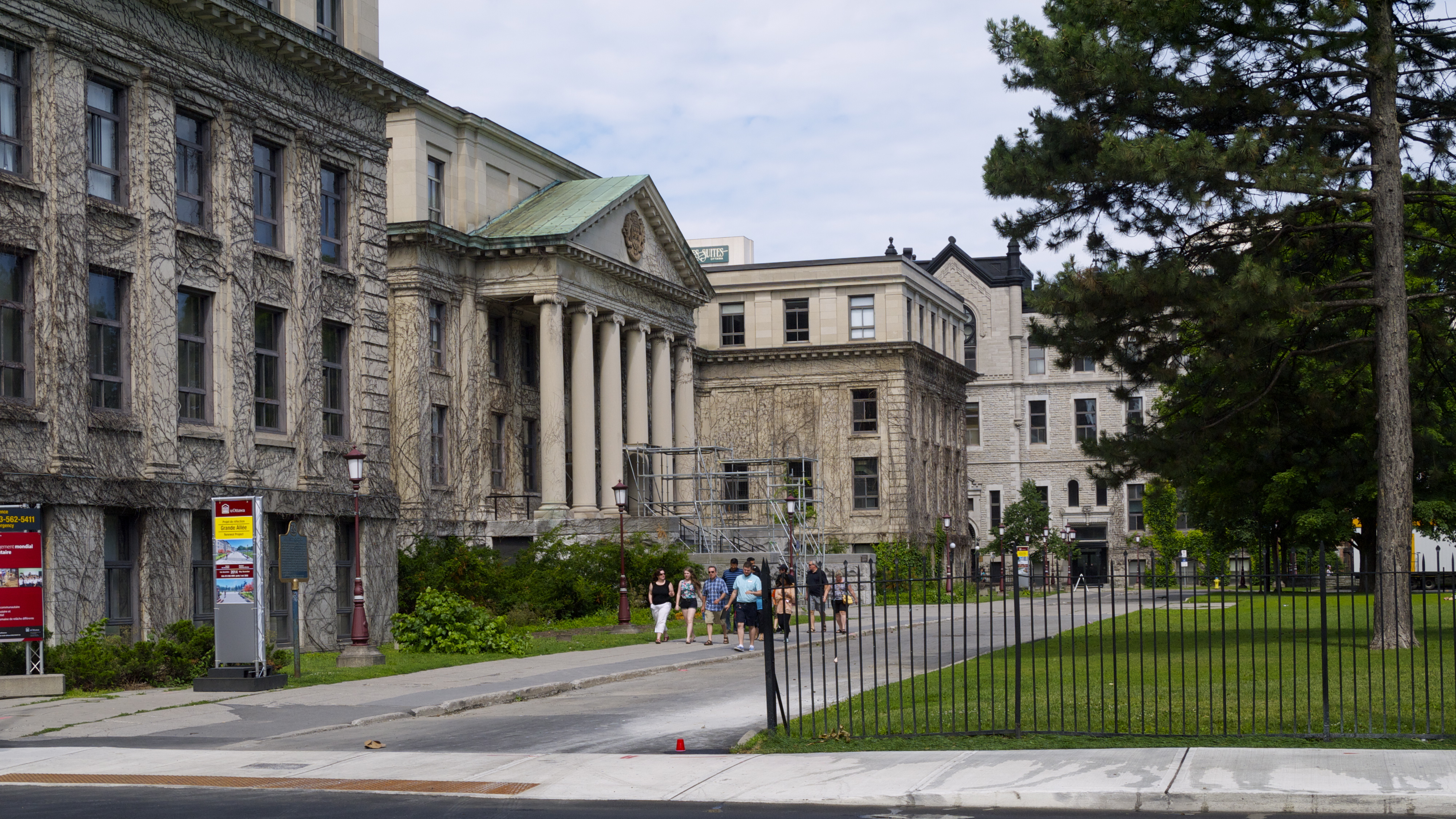 Tabaret Hall at University of Ottawa campus.